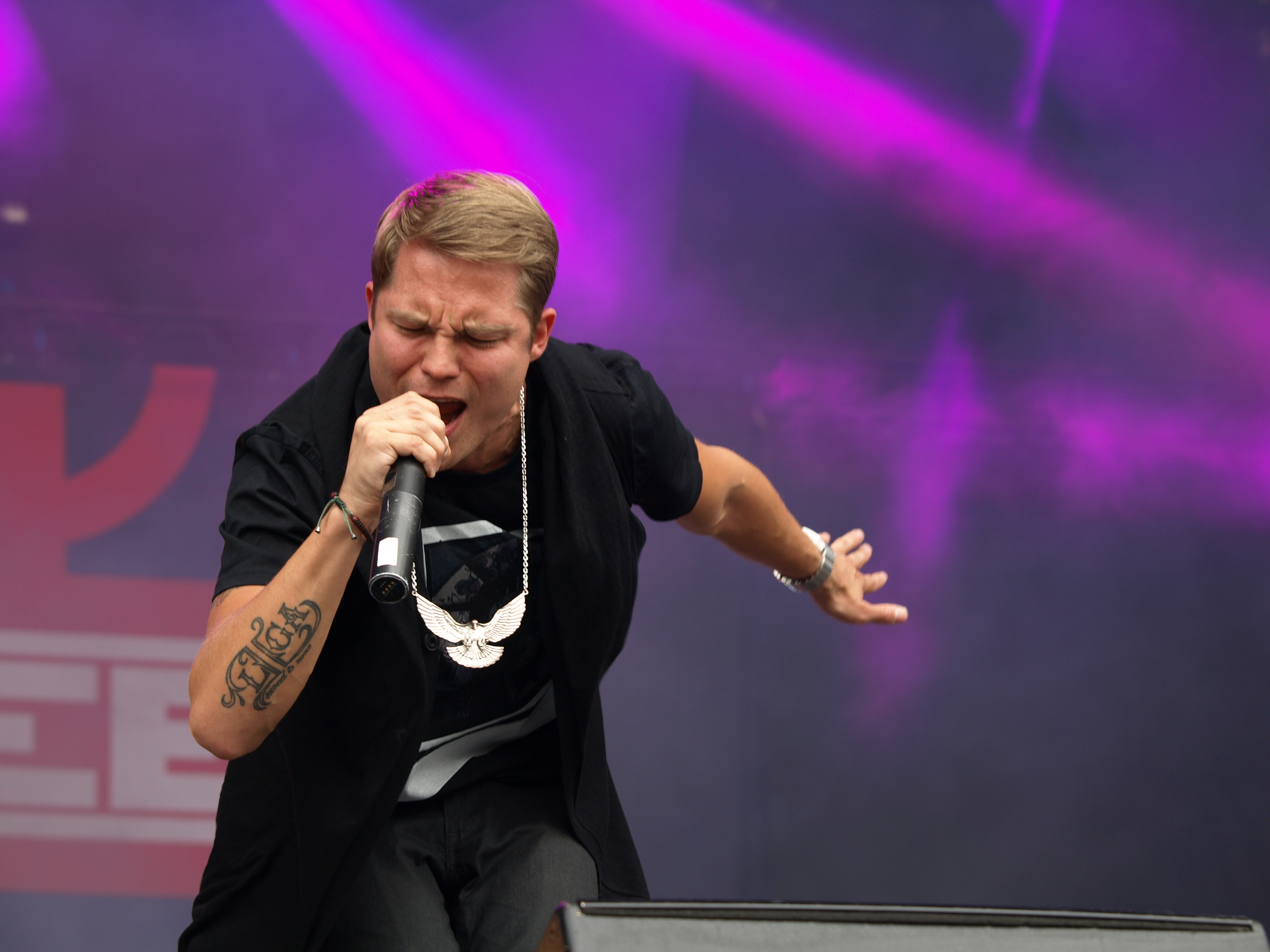 Finnish rapper Cheek and his band live at Provinssirock 2013